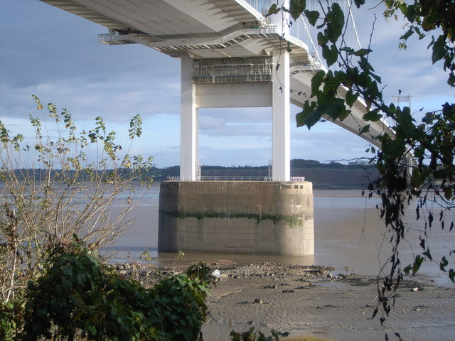 Severn Bridge (close up of pillar)